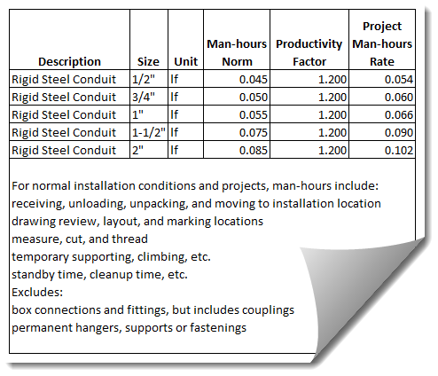 Sample labor man-hour norms with applied productivity factor.